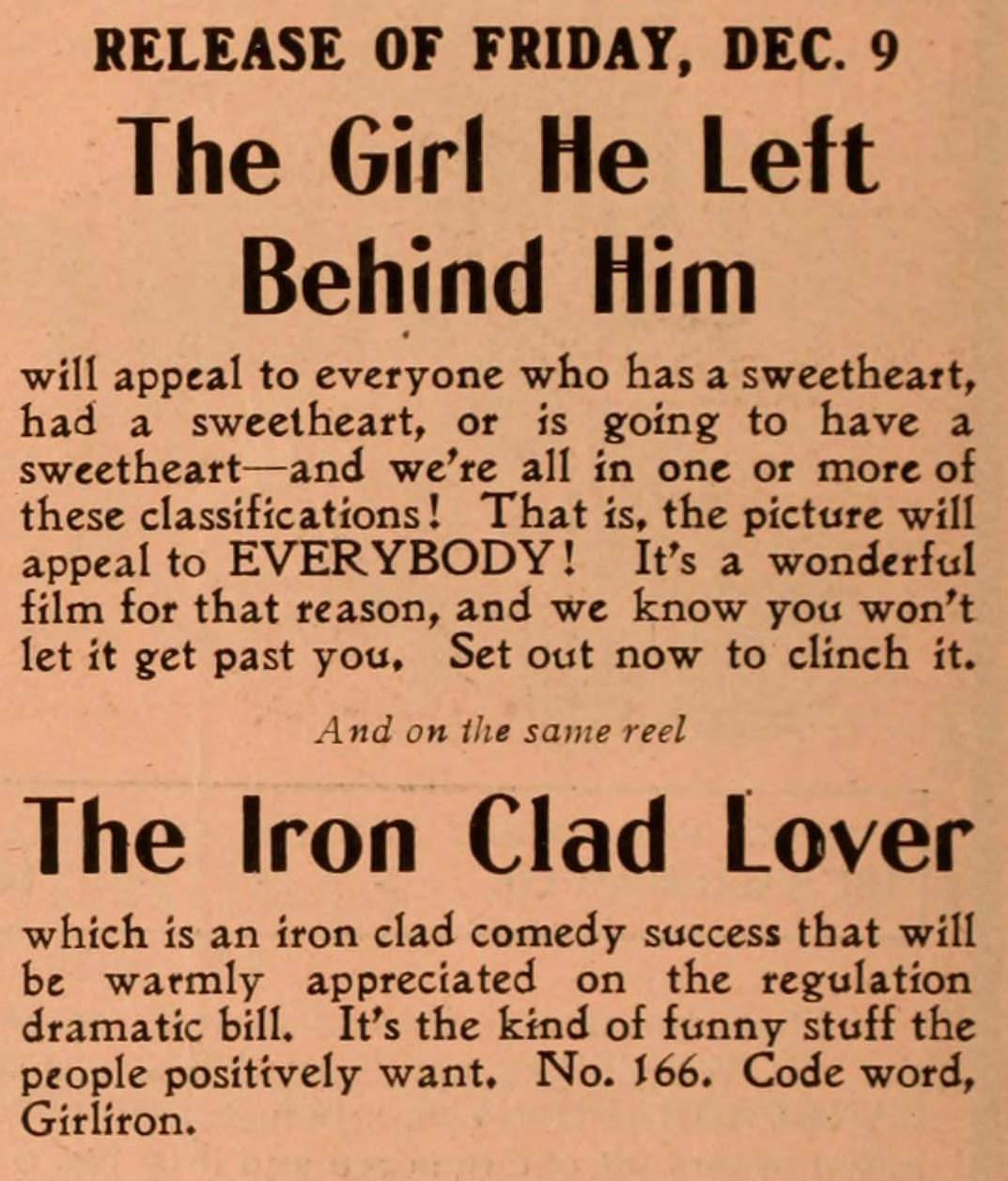 Part of the advertisement by the Thanhouser Company, announcing the release of The Girls He Left Behind Him and The Iron Clad Lover.